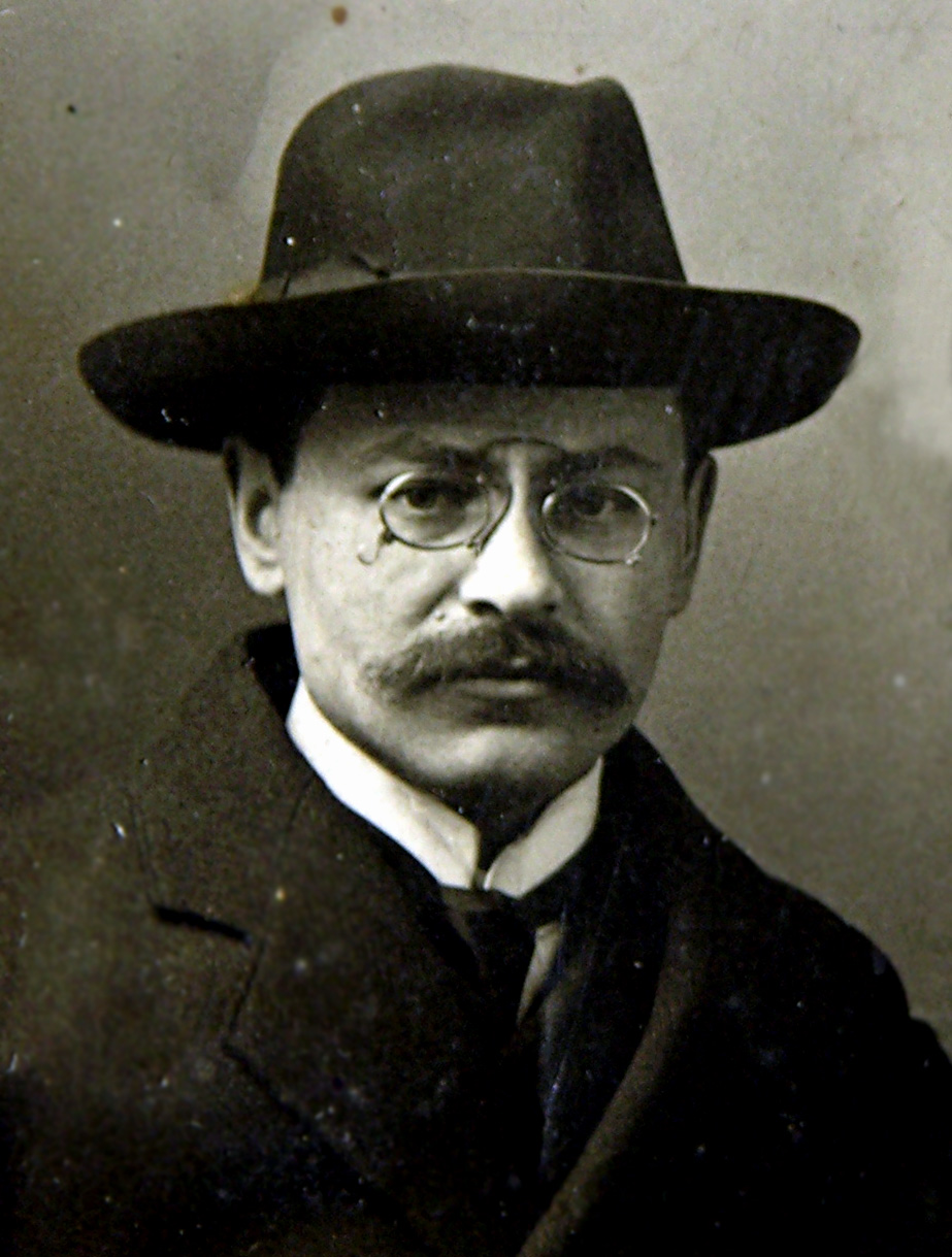 Volodymyr Barvinok, St.Petersburg, 1913